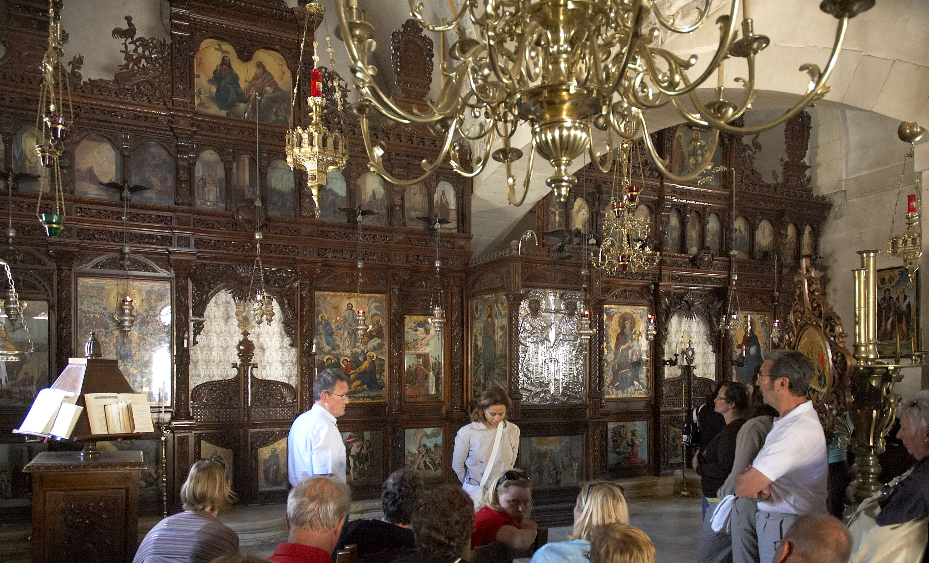 Arkadi Monastery / Moni Arkadiou in the church